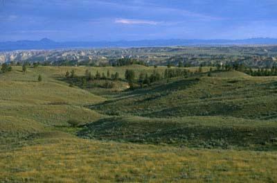 Upper Missouri River Breaks National Monument, Montana, United States